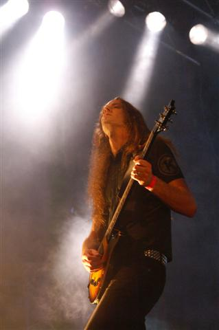 The file is a live picture of Peter Lindgren